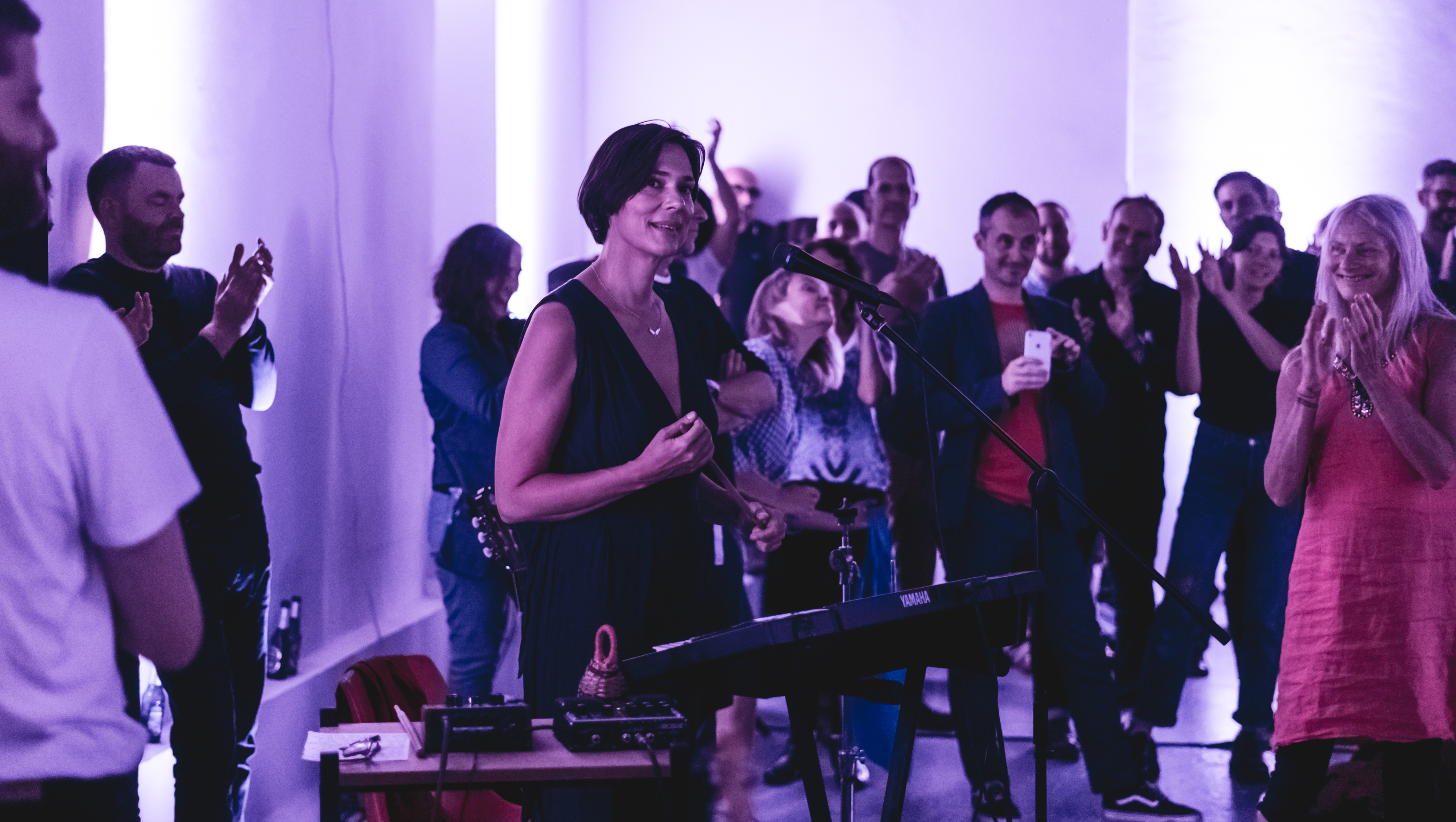 Performance of Laetitia Sadier and Basch in Studio Voltaire in July 2017.